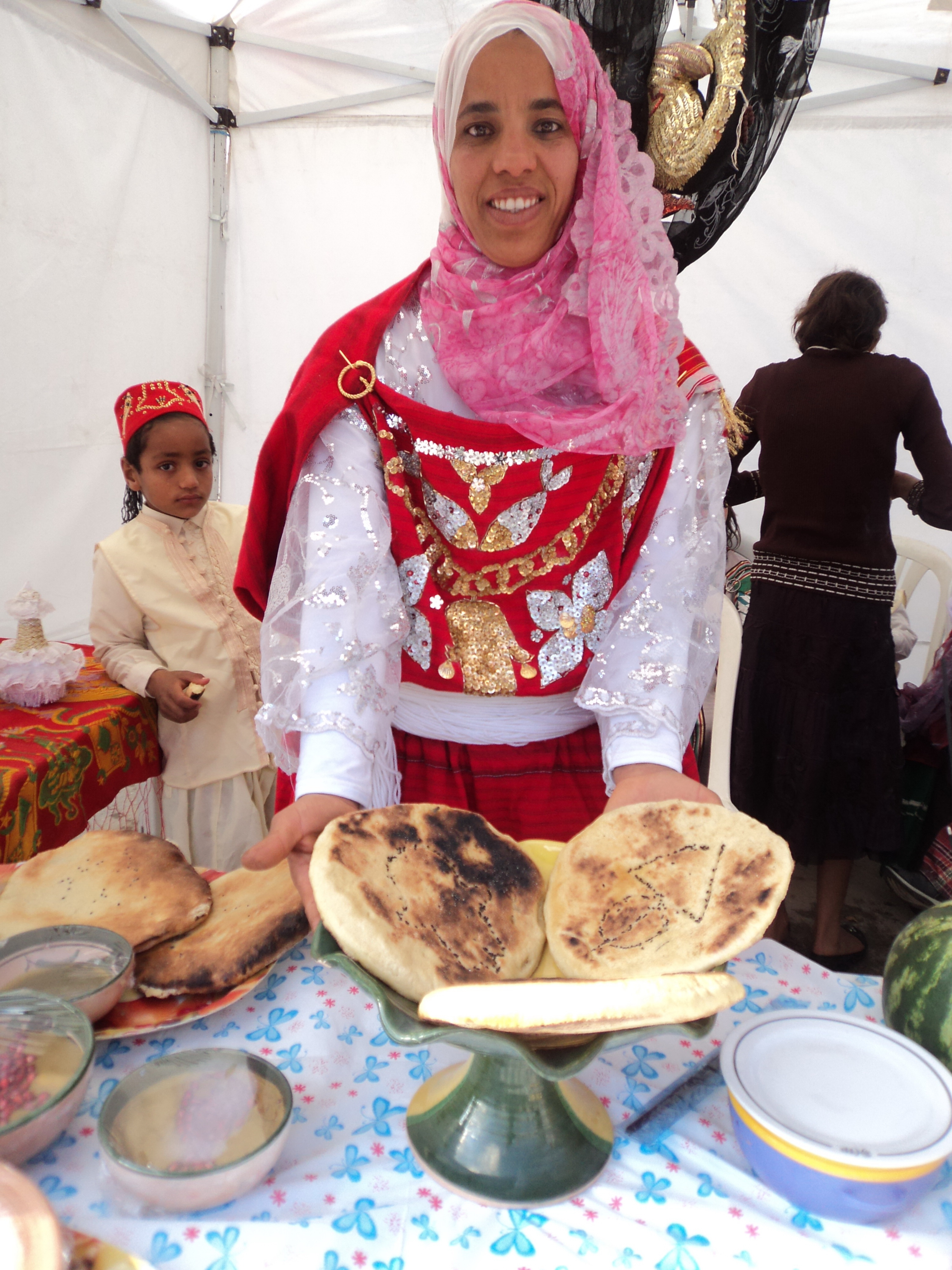 l'histoire en français